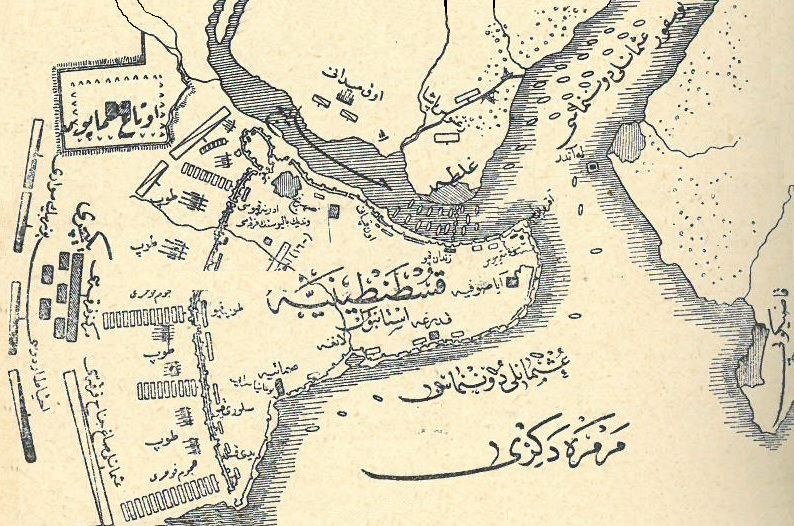 Siege and conquest of Constantinople by Sultan Muhammad the Conquer, in Ottoman Turkish.